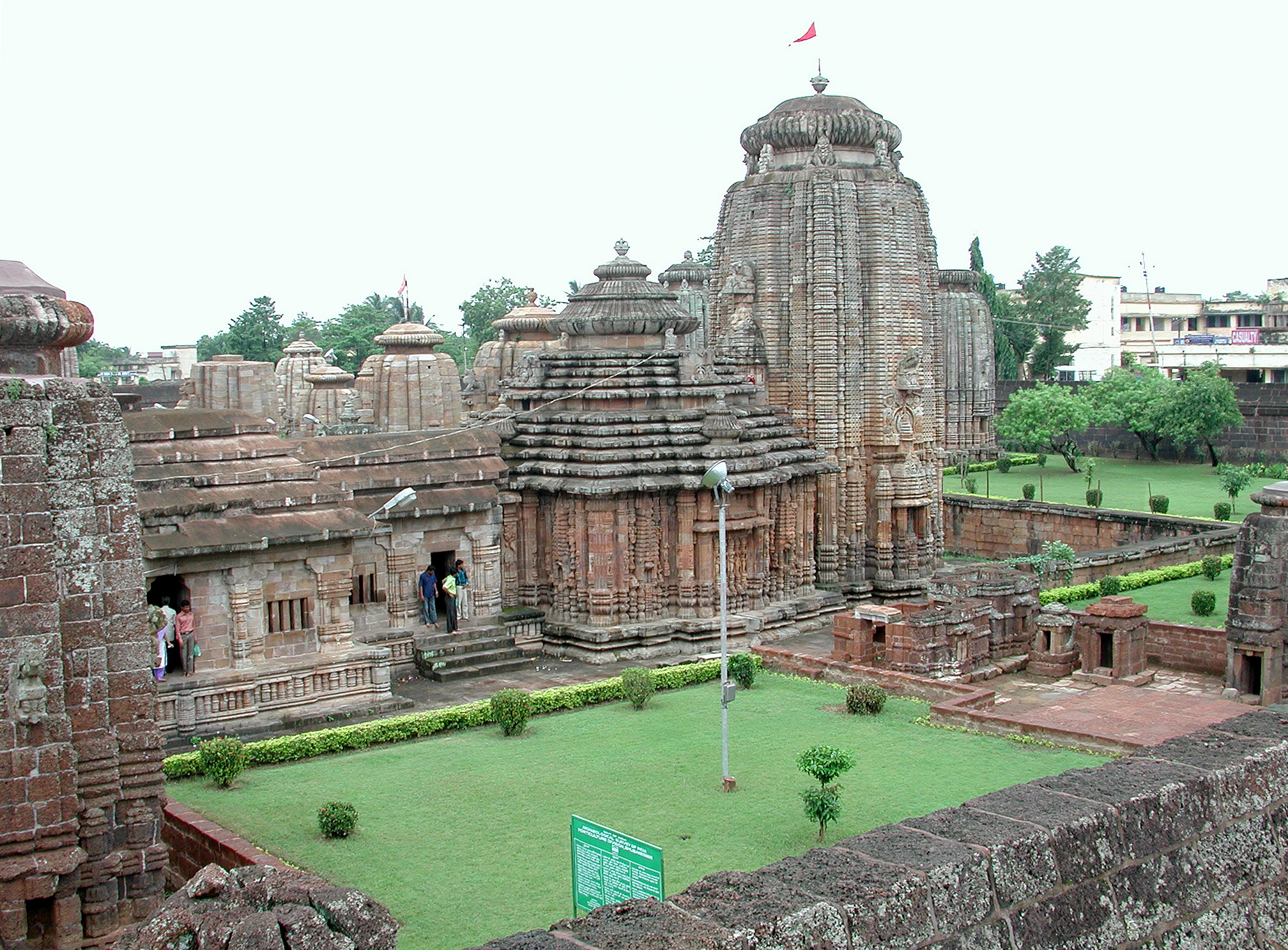 View on area of Hindu Temple Lingaraj in Bhubaneswar, Orissa, India